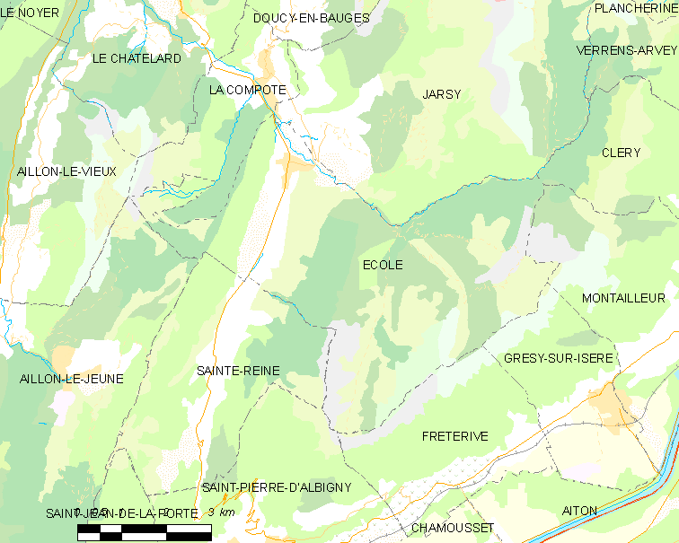 Map of French municipality